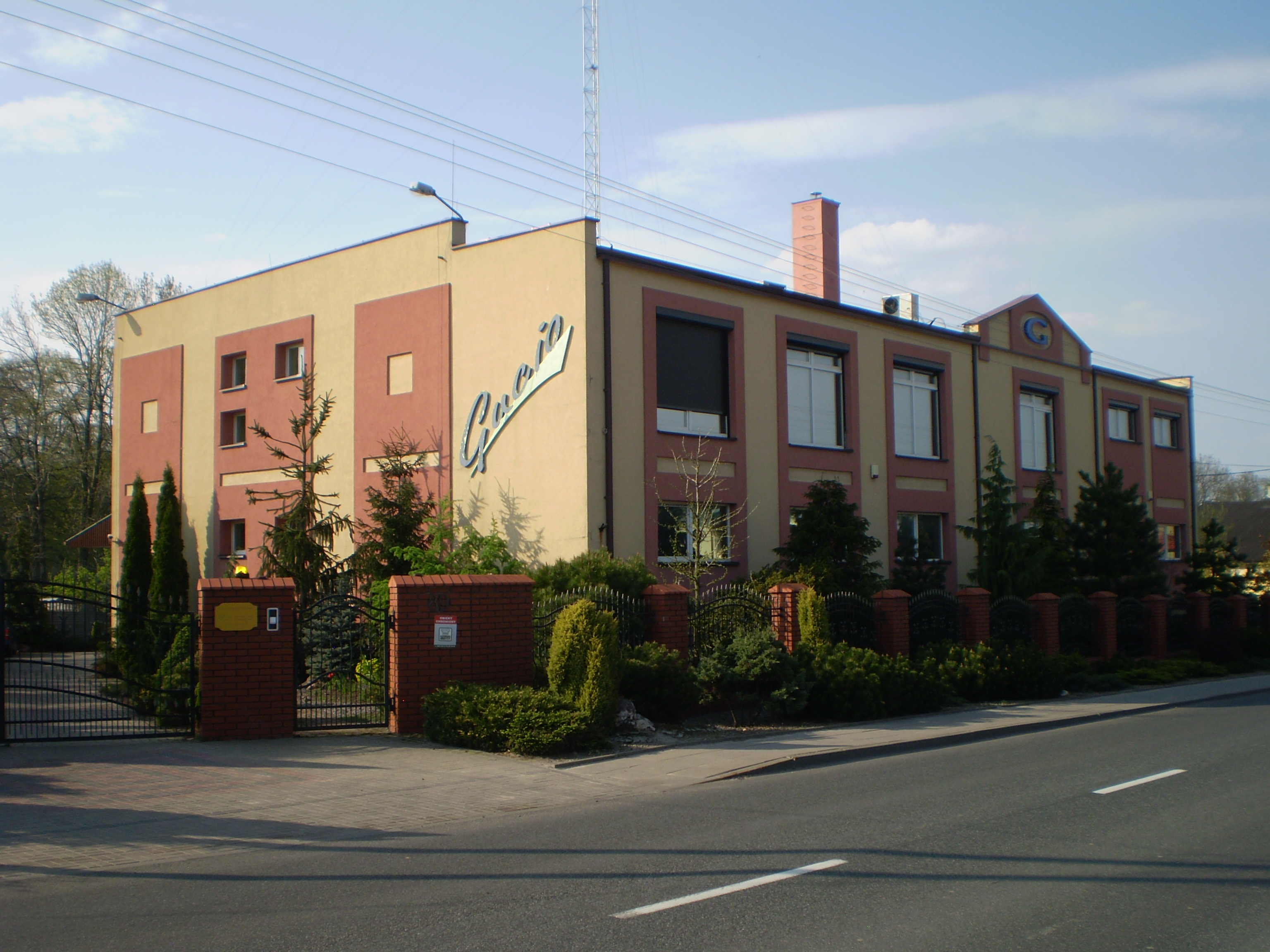 Zadzim